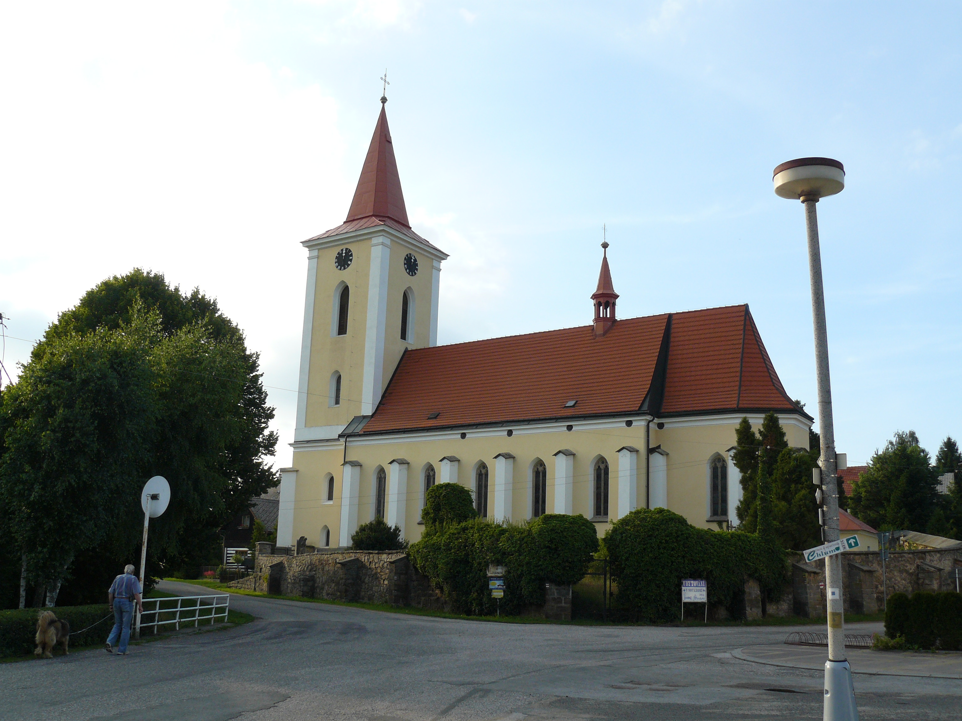 Libošovice - Village in Czech Republic